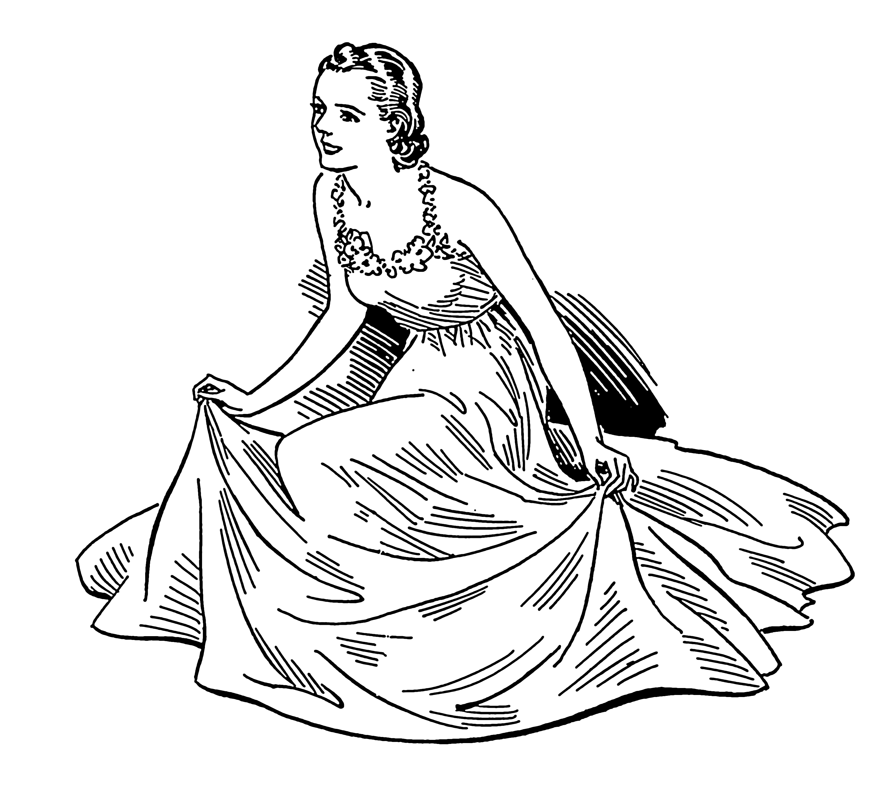 Line art drawing of a girl curtsying.